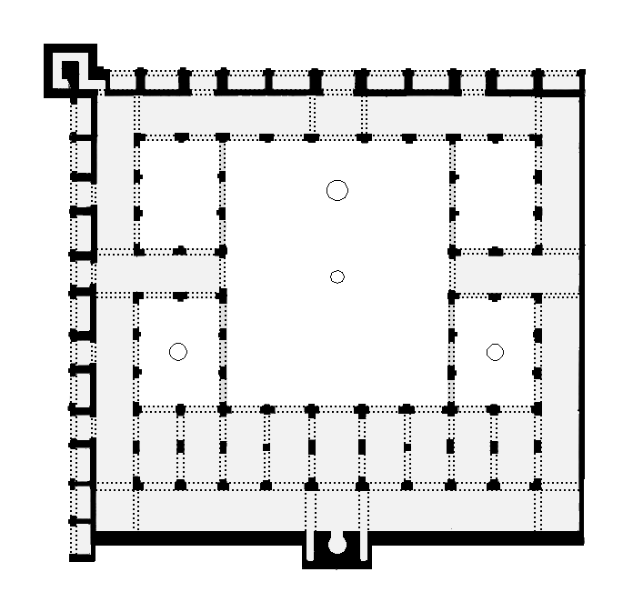 Floor plan of the Kasbah Mosque or al-Mansour Mosque in Marrakesh. (Notes: illustration was drawn by using a floor plan from p.91 in Christian Ewert's chapter "The Architectural Heritage of Islamic Spain in North Africa" in the book "Al-Andalus: the art of Islamic Spain" as reference, and using Google satellite imagery as secondary reference and for checking the position of the courtyard fountains).